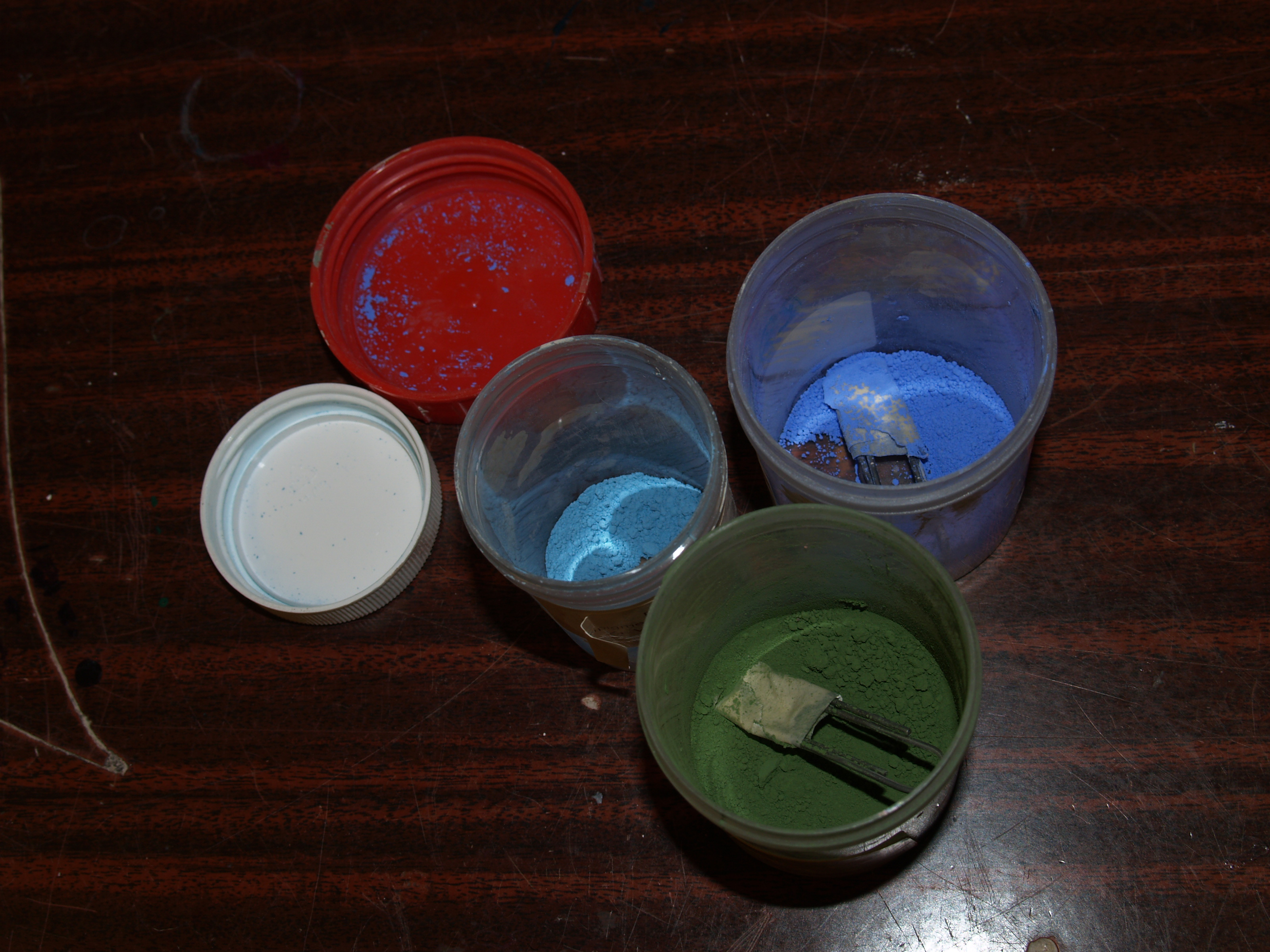 Different pigments.